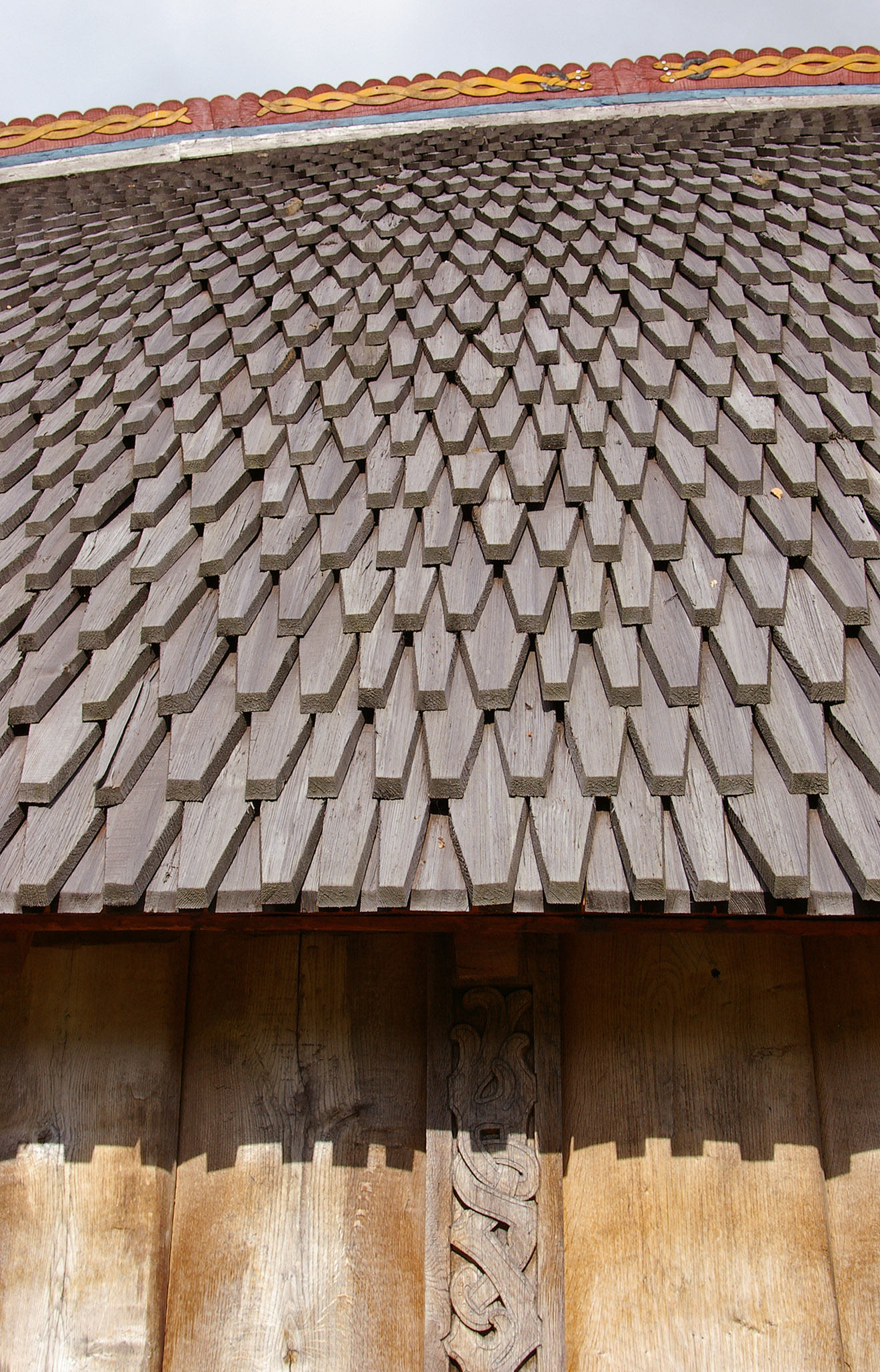 Reconstructed Viking farm in Ale near Göteborg, Sweden